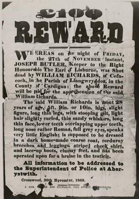 Wanted: William Richards of Cefn Coch 'Wil Cefn Coch', for the murder of Joseph Butler, Gamekeeper of the earl of Lisburn. The reward was £100.